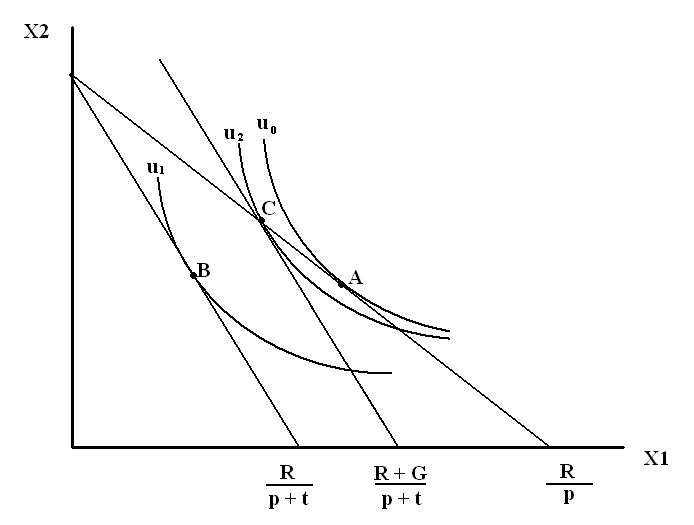 Barone's theorem